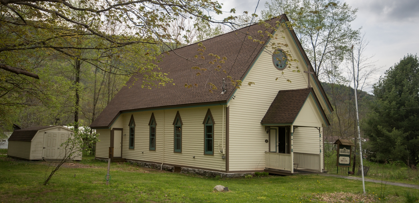 St. Francis DeSales Church